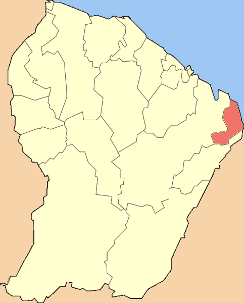 Made map myself.